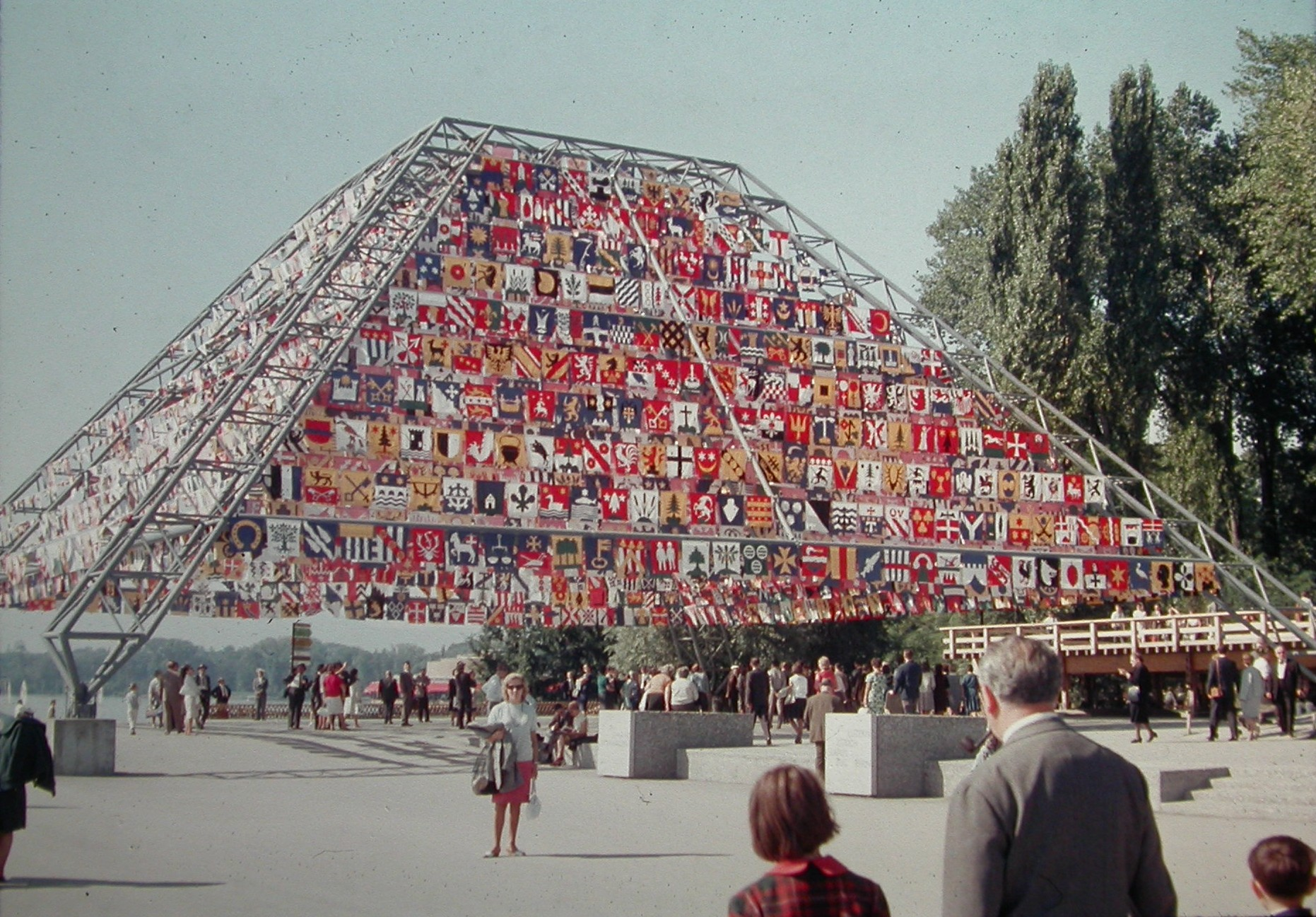 all coat of arms of all swiss municipalities were displayed on a pyramid during Expo64